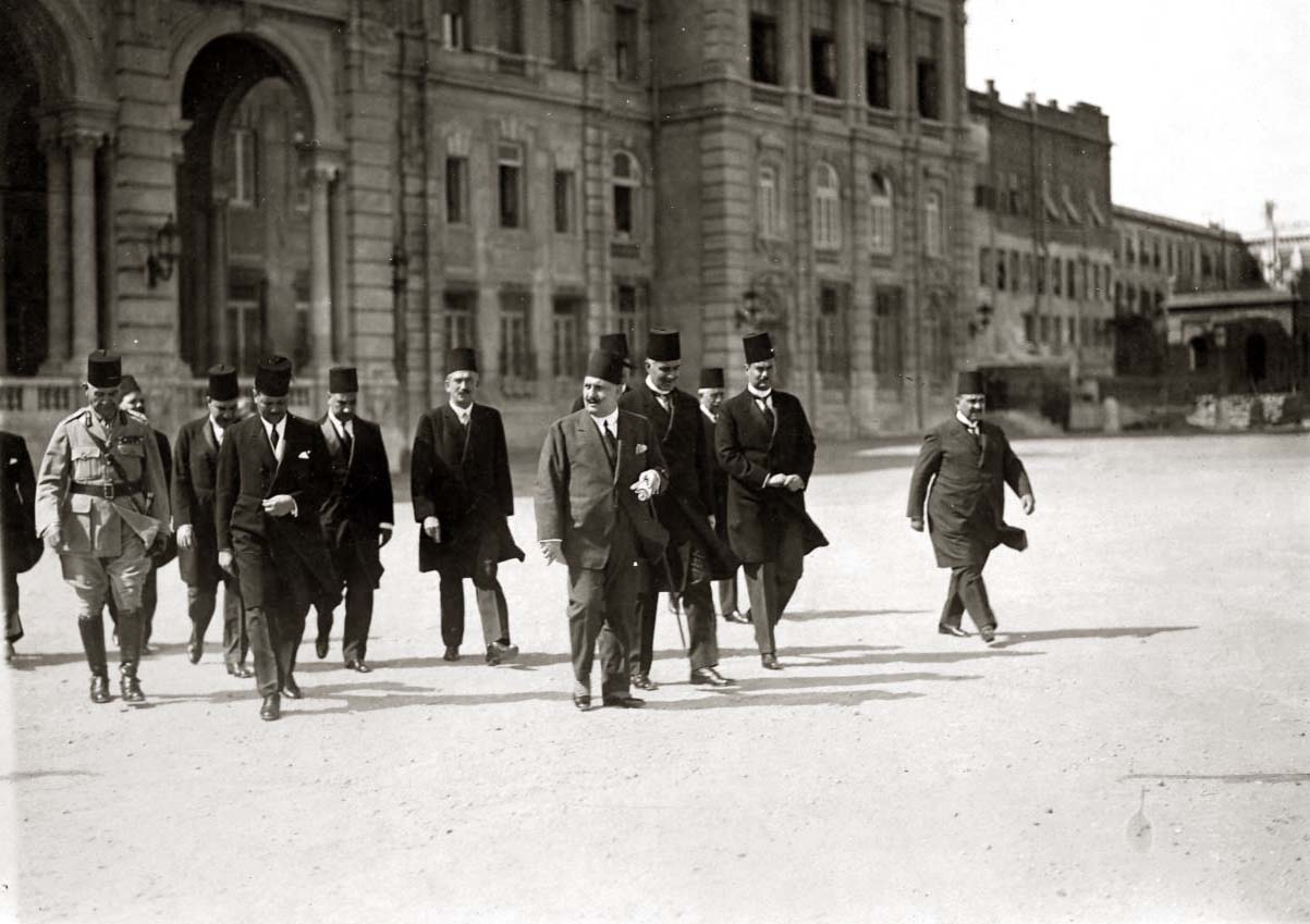 King Fouad I of Egypt leaving the Ramleh Station in Alexandria accompanied by Prime Minister Muhammad Mahmoud Pasha and several ministers.